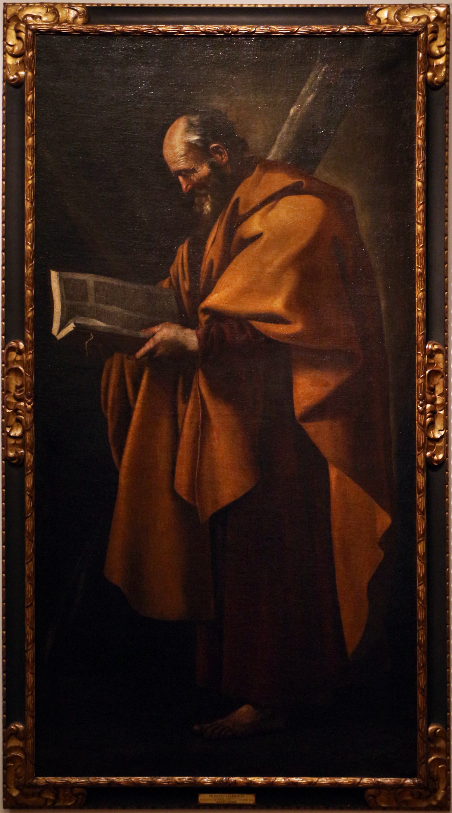 Spanish paintings in the Museu Nacional de Arte Antiga